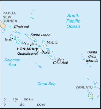 Map of Solomon Islands, showing major towns.